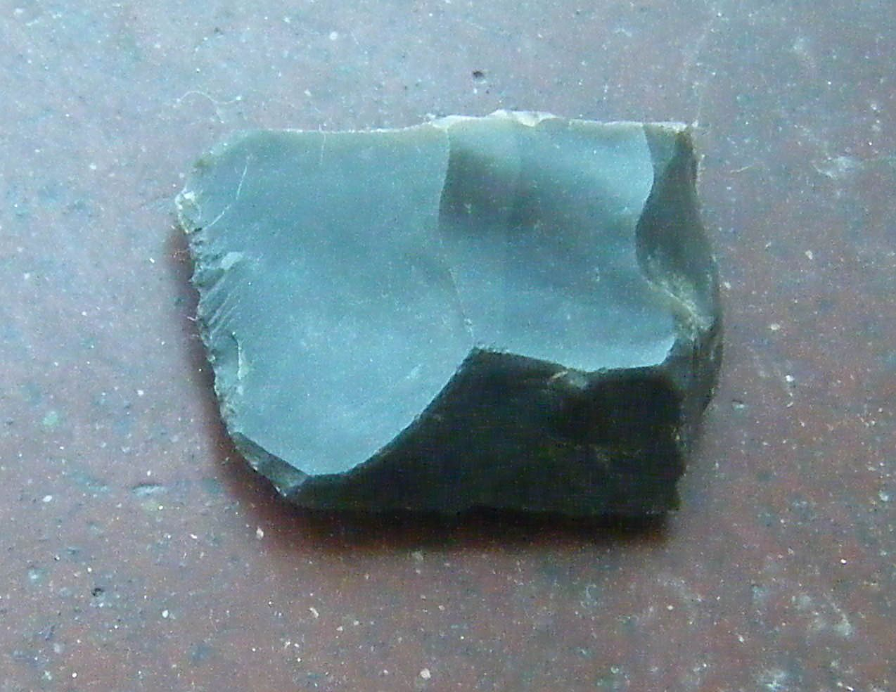 Fire striker for guns